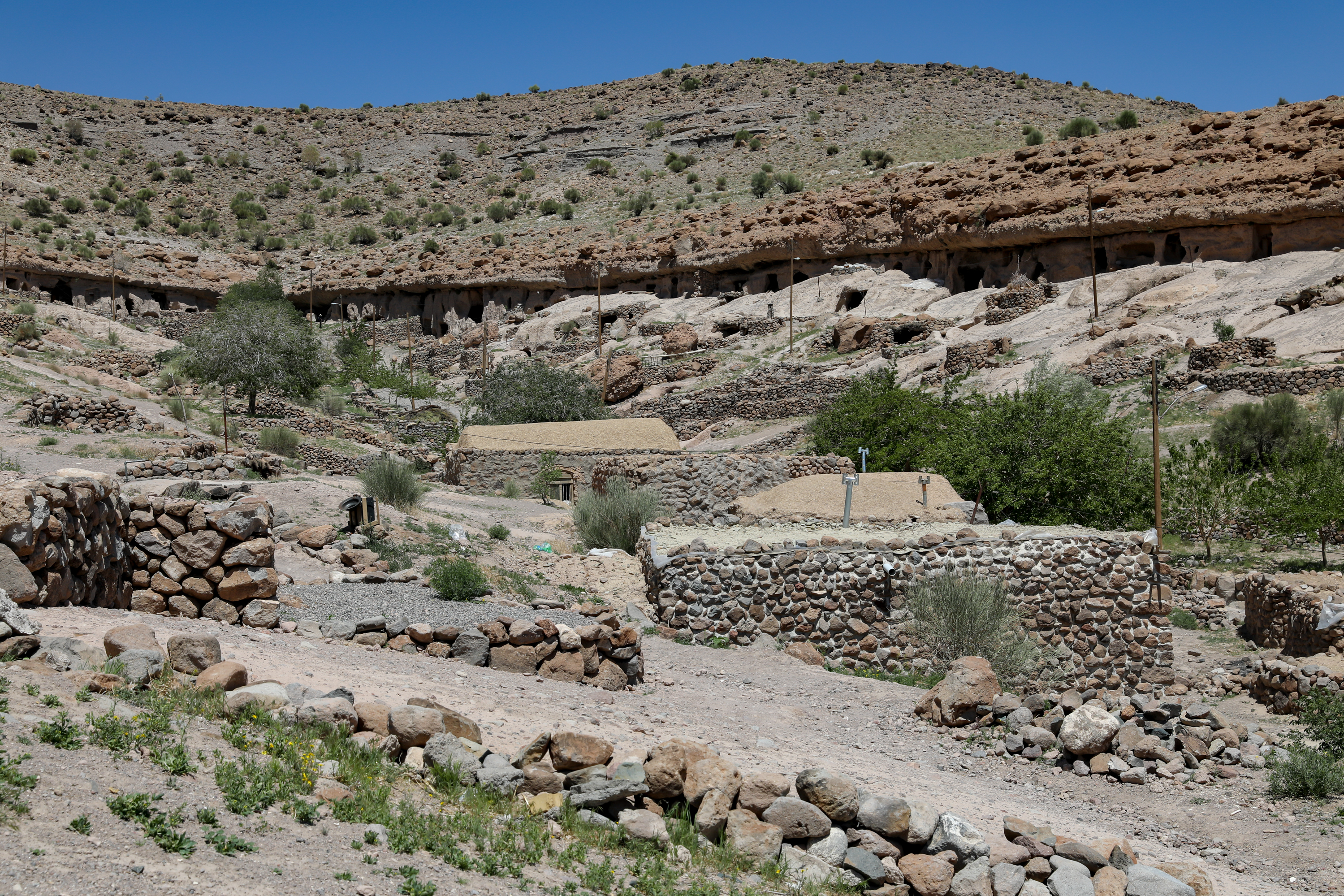 Meymand is a village of troglodytes - cave dwellers. Meymand is believed to be a primary human residence in the Iranian Plateau, dating back to 12,000 years ago. Many of the residents live in the 350 hand-dug houses amid the rocks, some of which have been inhabited for as long as 3,000 years.